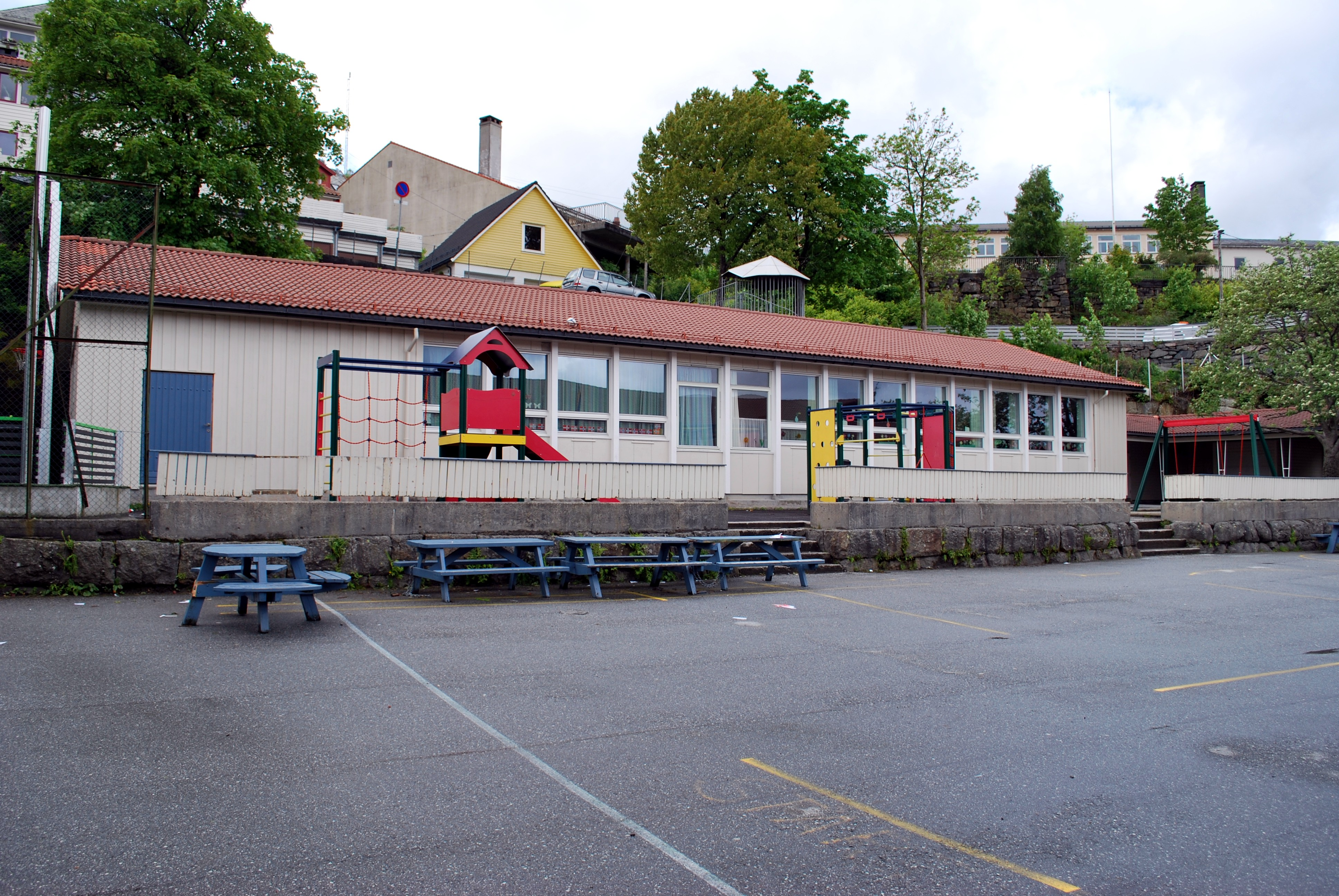 Holen skole at laksevåg in Bergen.